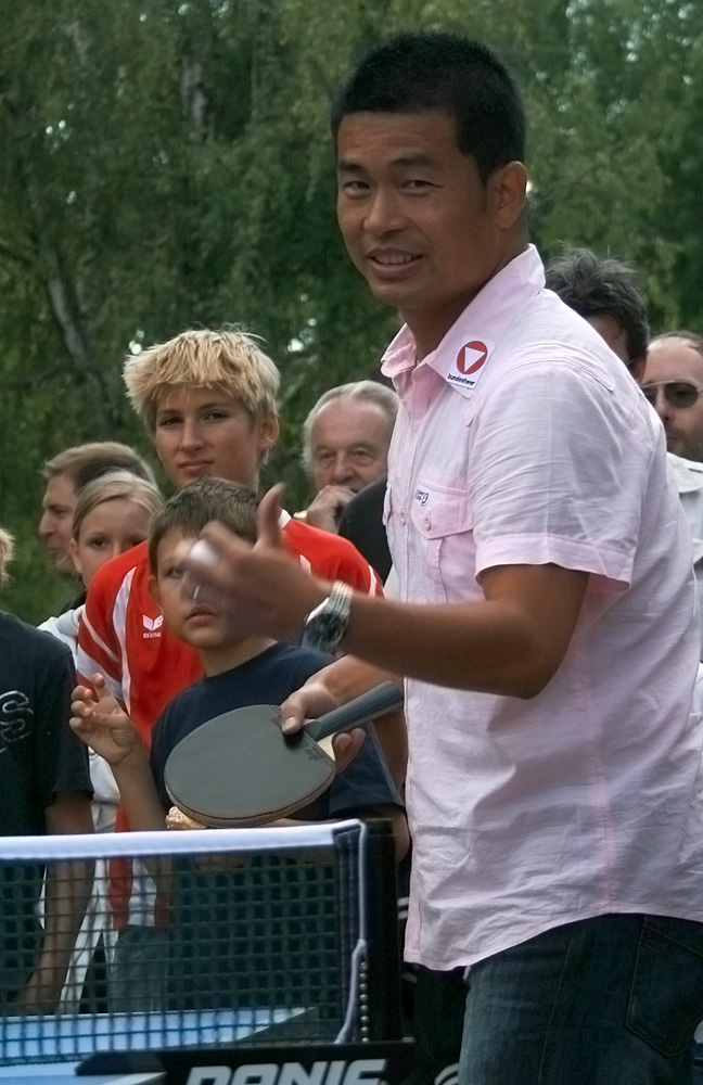 Table tennis player Chen Weixing at the presentation of the Austrian team for the 2008 Summer Olympics in China (Strandbad Gänsehäufel, Vienna)